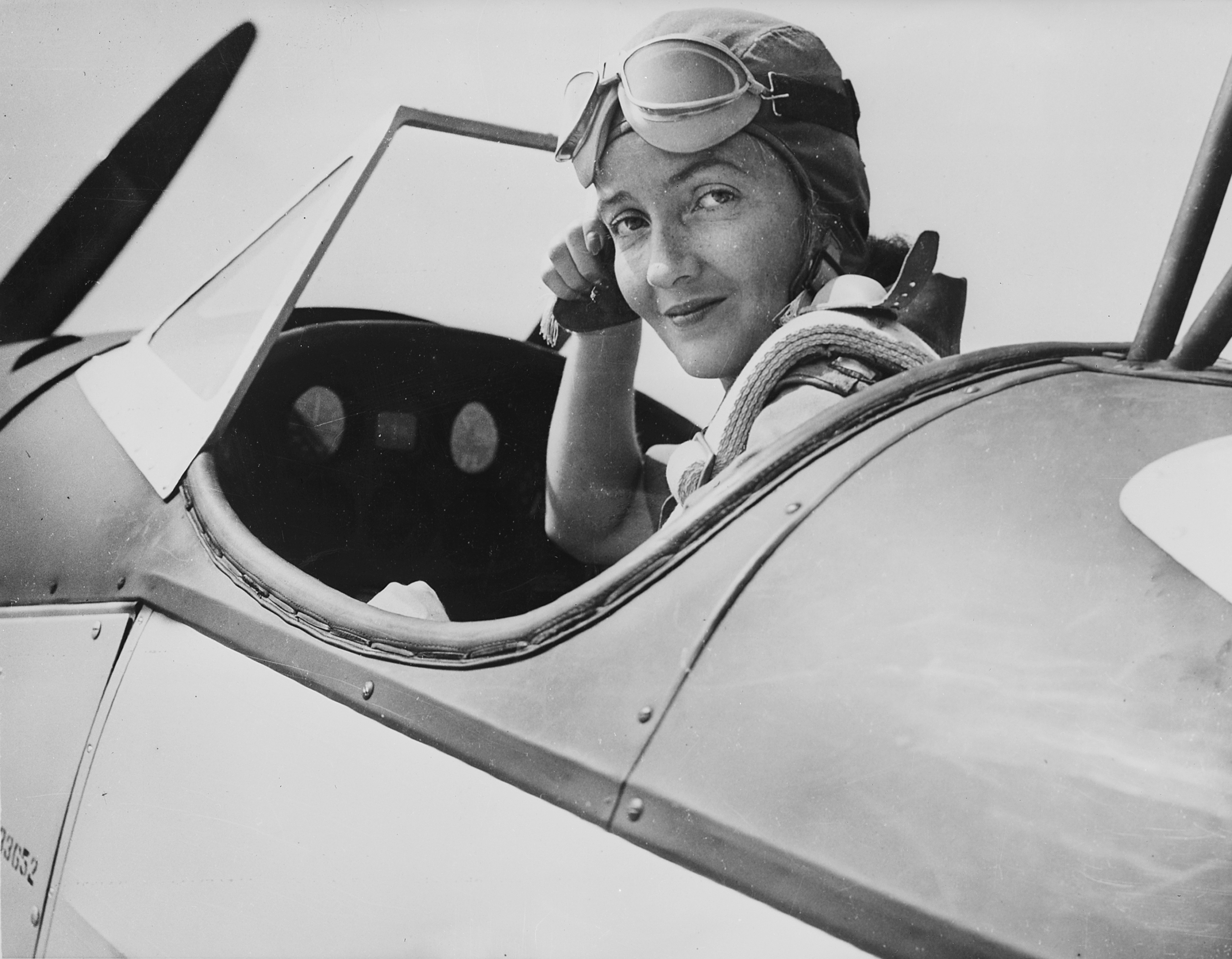 Mrs. Nancy Harkness Love, 28, director of the U.S. Women's Auxiliary Ferry Squadron, adjusts her helmet in the cockpit of an Army plane before taking off from an eastern United States base. The women under her command will ferry planes from factories to coastal airports, from which they will be flown to overseas battle fronts.